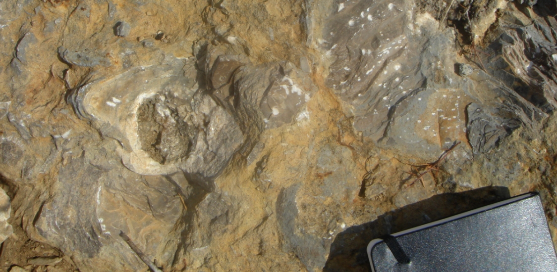 Oysters in the Tremp Formation. courtesy: M. Wiemer